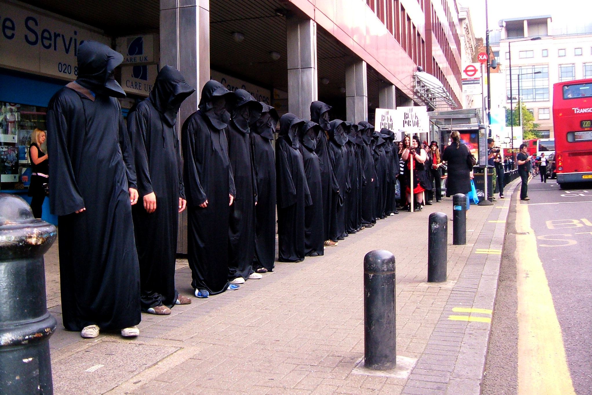 London Hammersmith Palais when the name of the upcoming My Chemical Romance album The Black Parade was announced by these people.